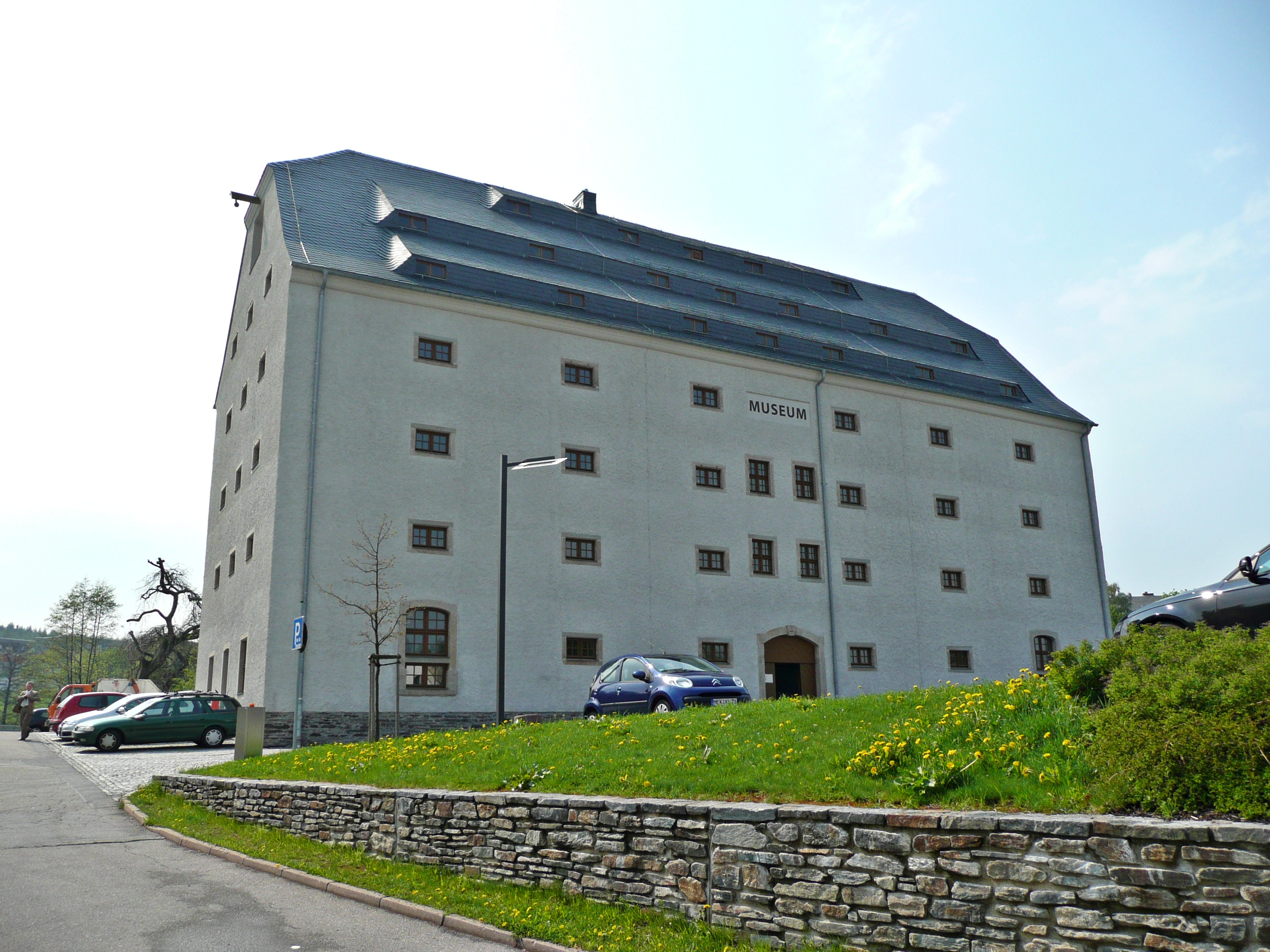 This image shows the former granary (built 1806-1809) in Marienberg in Saxony. The granary is used as a museum since 2006.